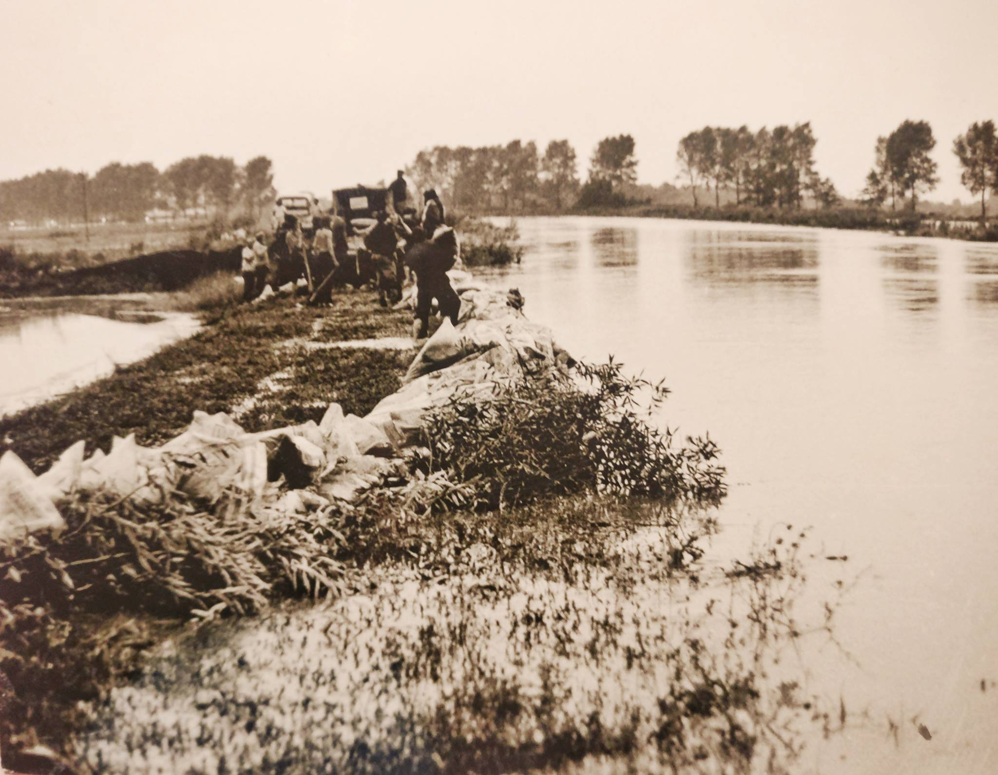 Postcard of Benica.